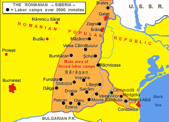 The Romanian "Gulag" area since Frunză (Victor) Istoria comunismului în România, EVF, Bucharest, 1999, ISBN 973 9120 05 9